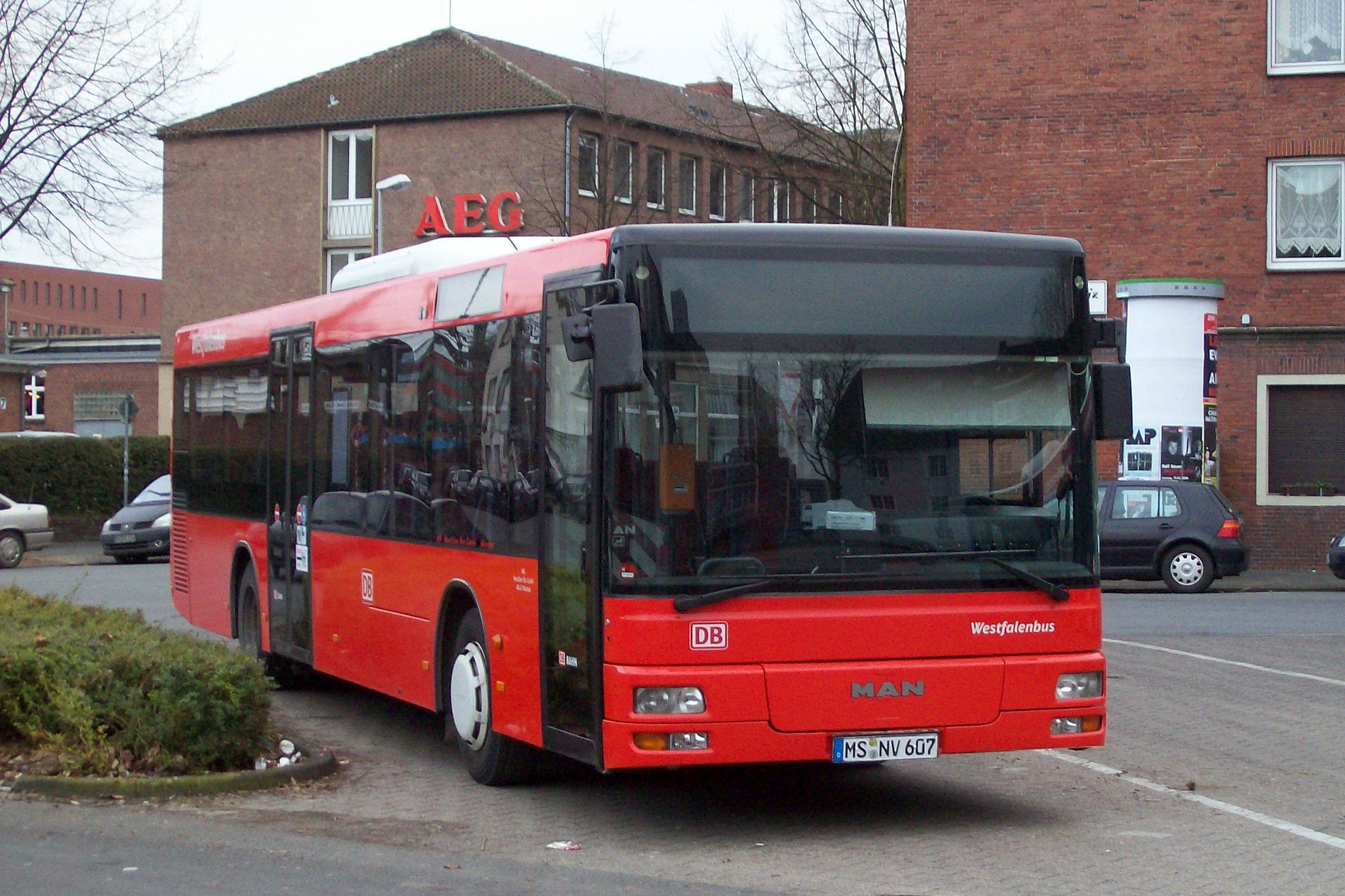 Westfalenbus: MAN in new DB livery at Frie-Vendt-Platz, Münster